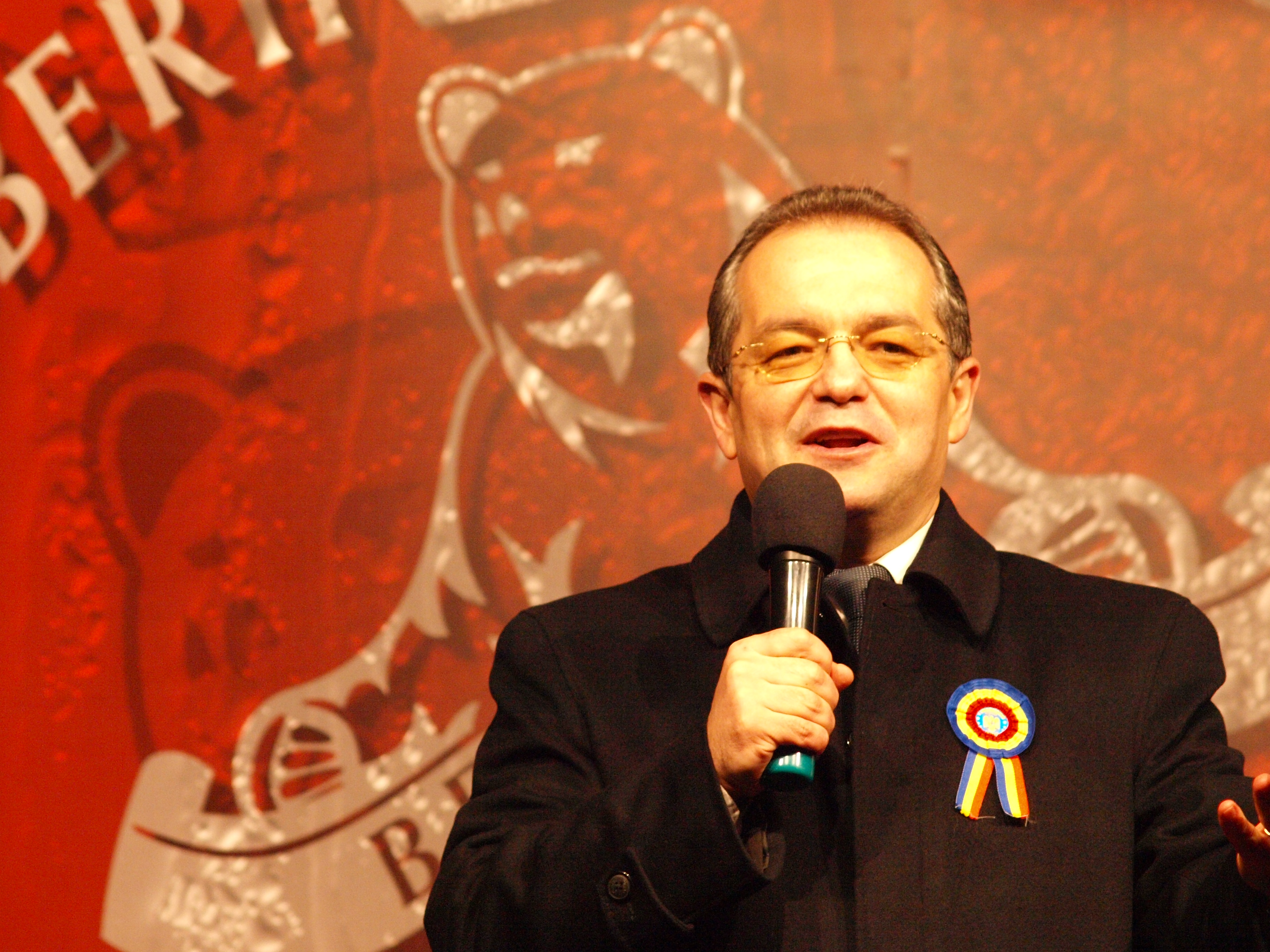 Emil Boc speaking.